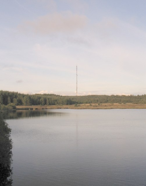 Llyn Llech Owain. Partial view of the lake at Llyn Llech Owain country park. Carmel TV transmitter can be seen beyond the surrounding evergreen forest to the east.